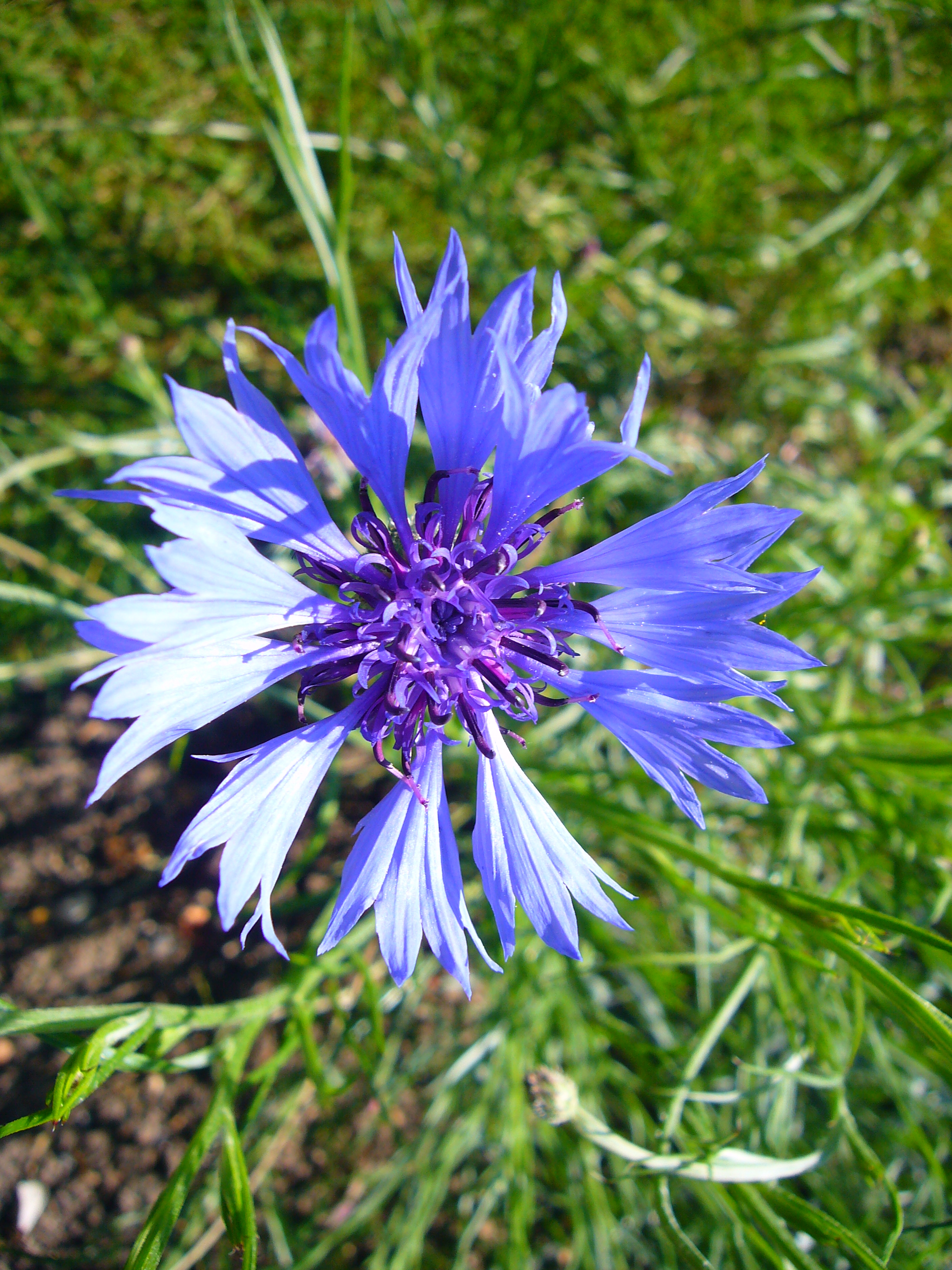 Cornflower (Centaurea cyanus) in the Cambridge University Botanic Garden